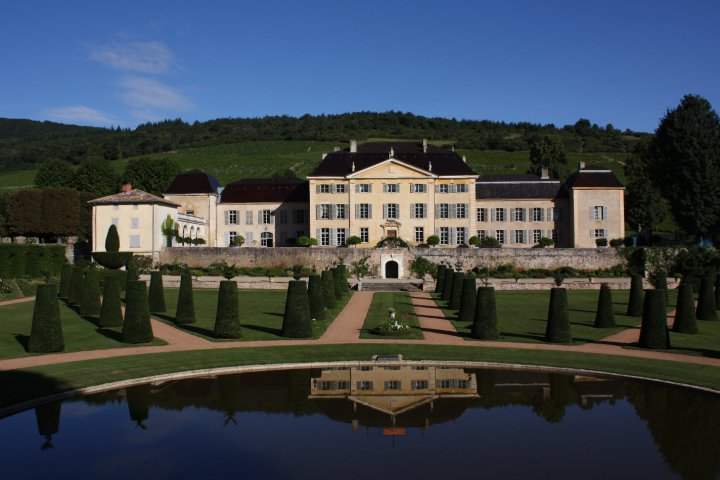 Front view of the castle and its garden